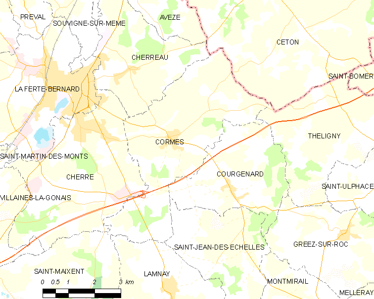 Map of French municipality